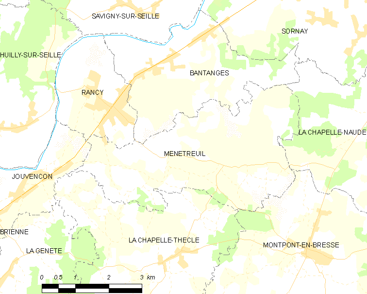 Map of French municipality